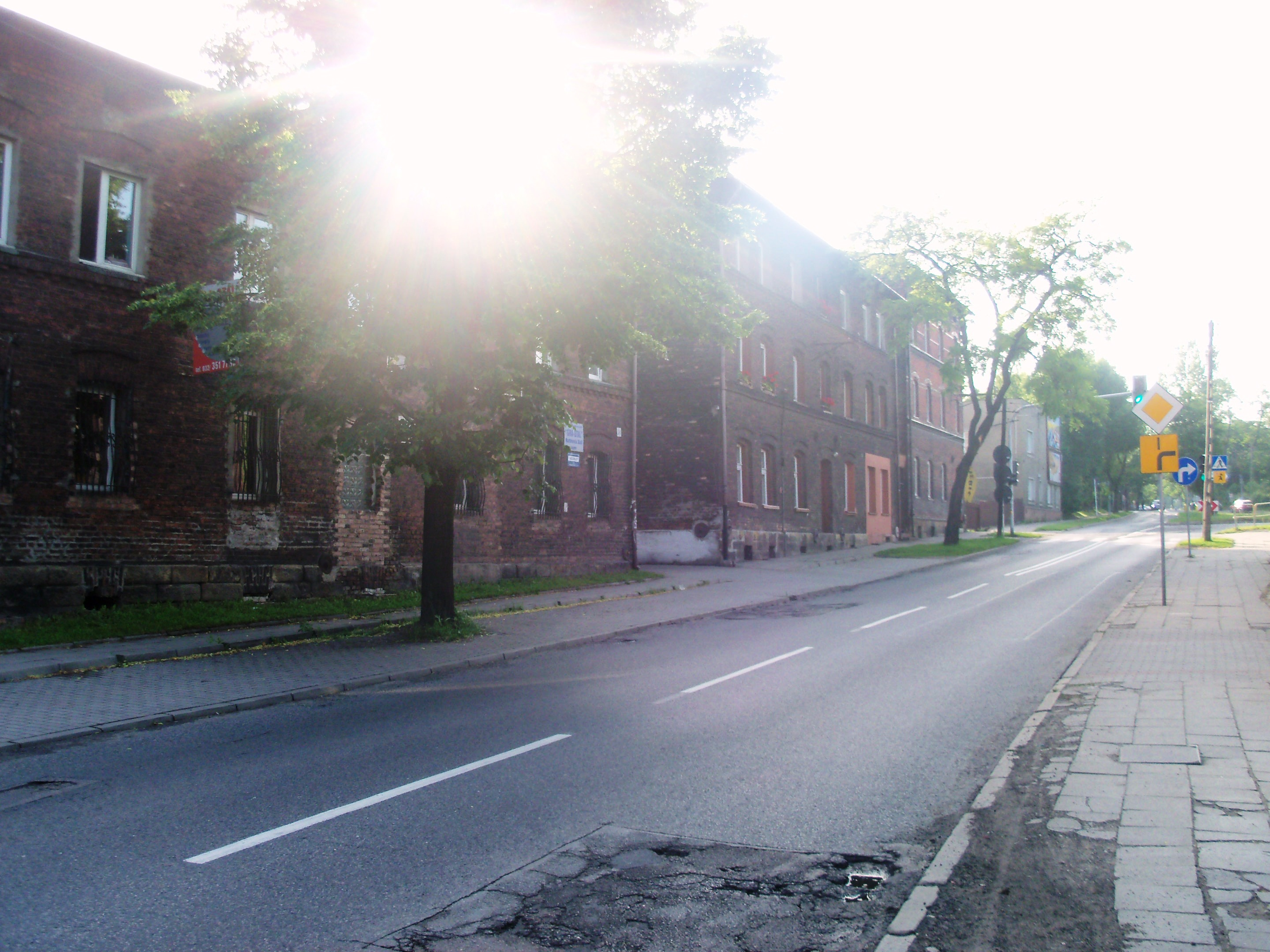 Oswobodzenia Street in Katowice